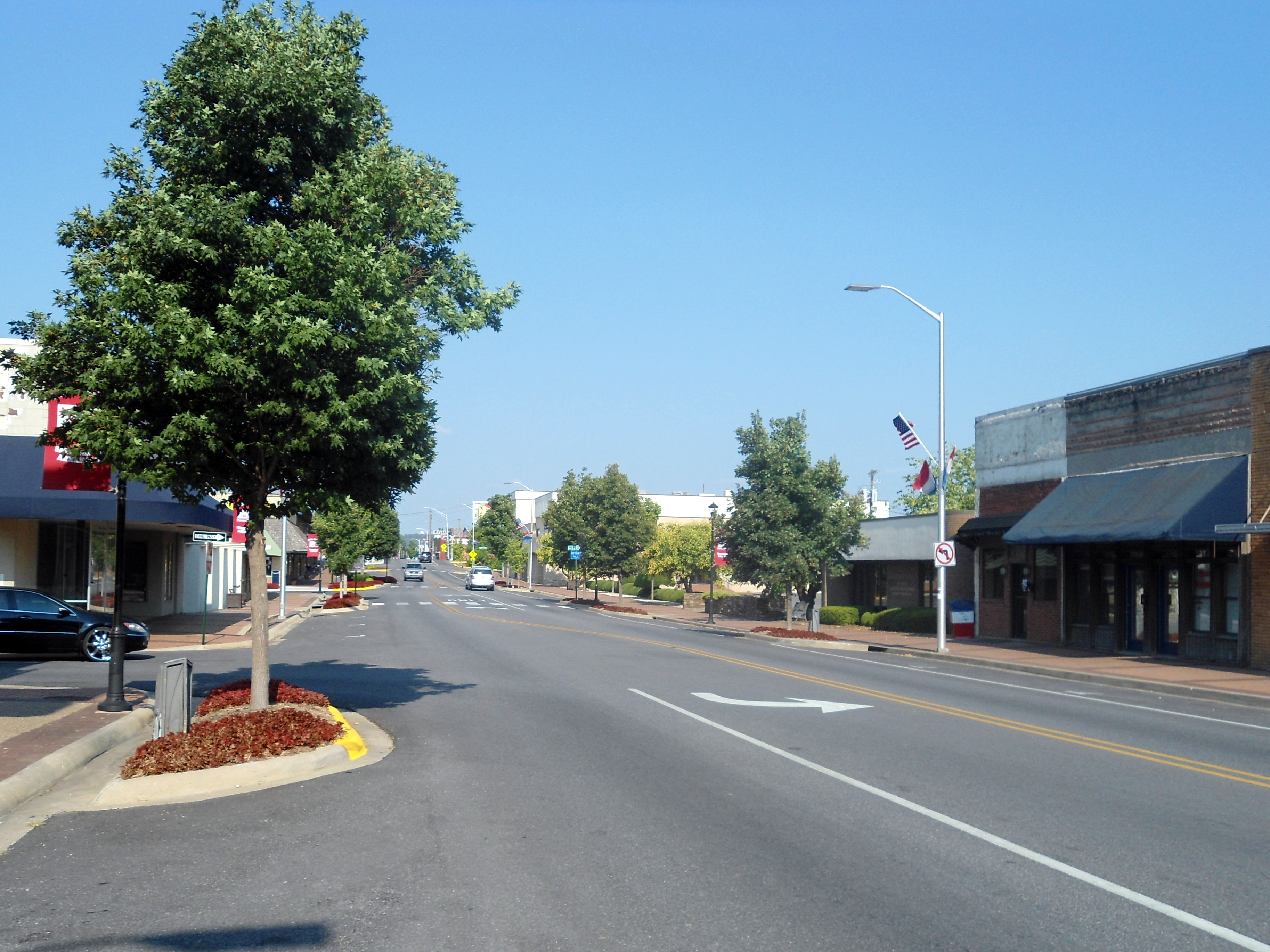 Emma Avenue in Springdale, AR. Facing east